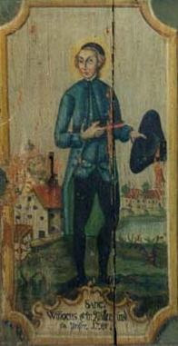 Saint Winnoc. Old door sign from the Pforzner monastery mill. Today on loan at the Kaufbeurer local history museum.